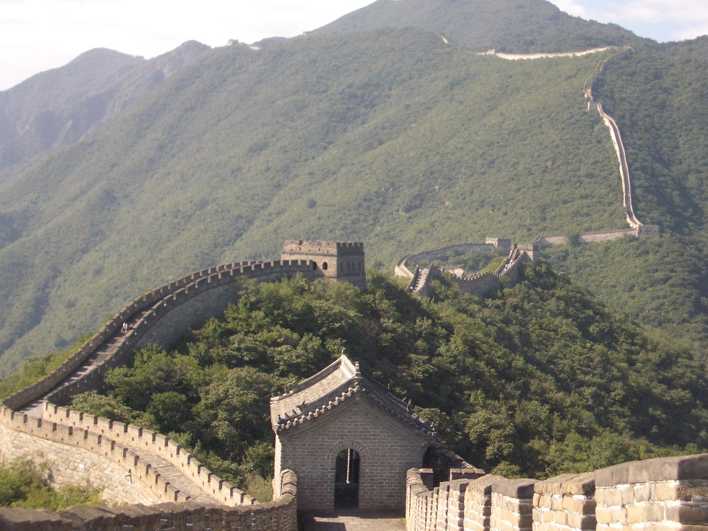 The Great Wall of China at Mutianyu